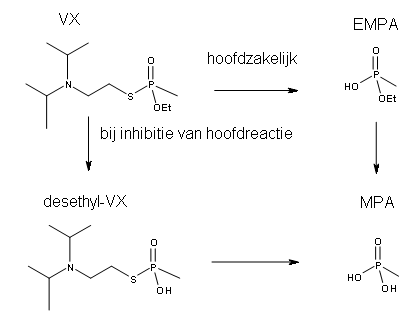 Metabolism of VX